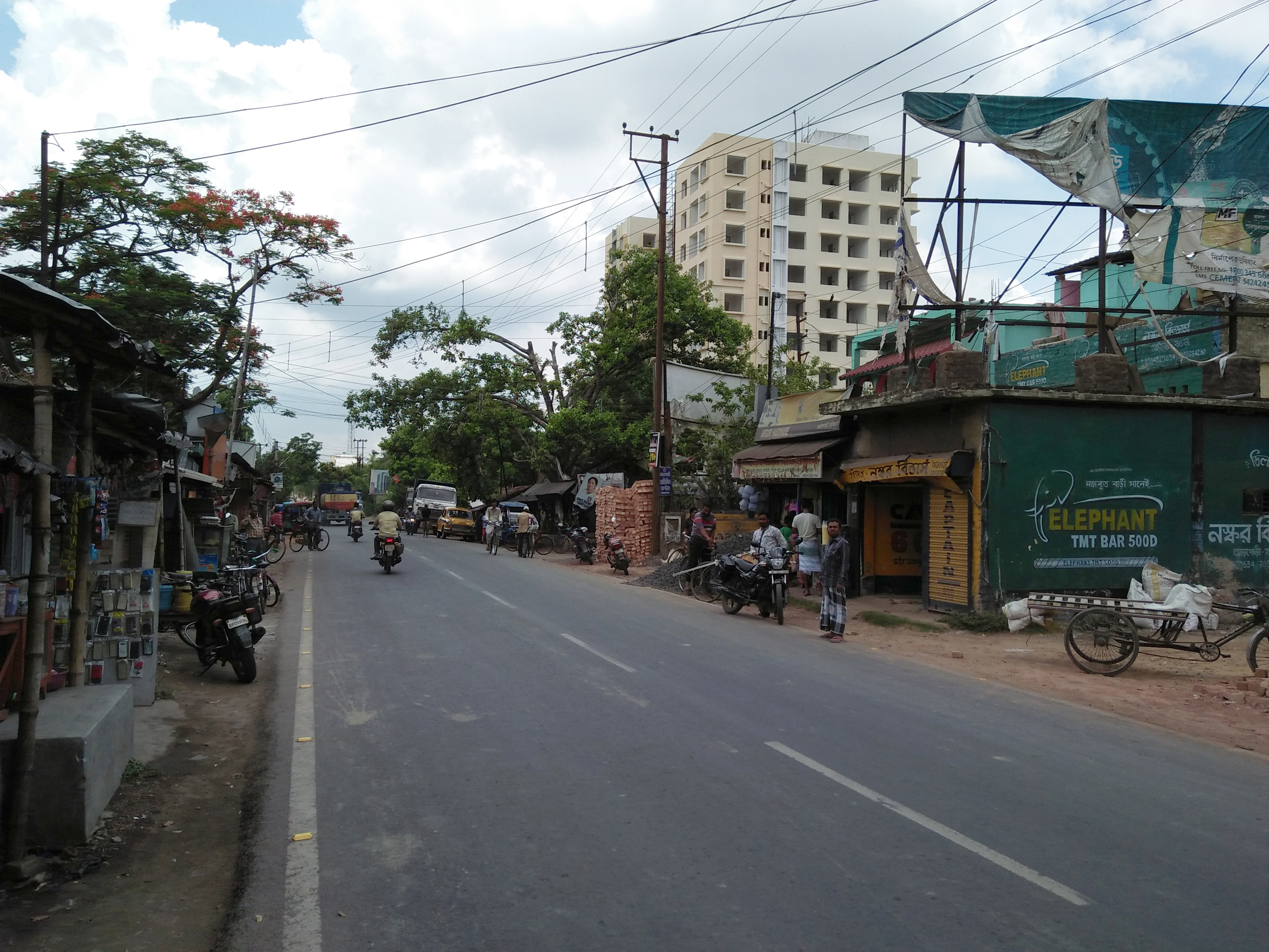 This photograph was taken at greater kolkata.